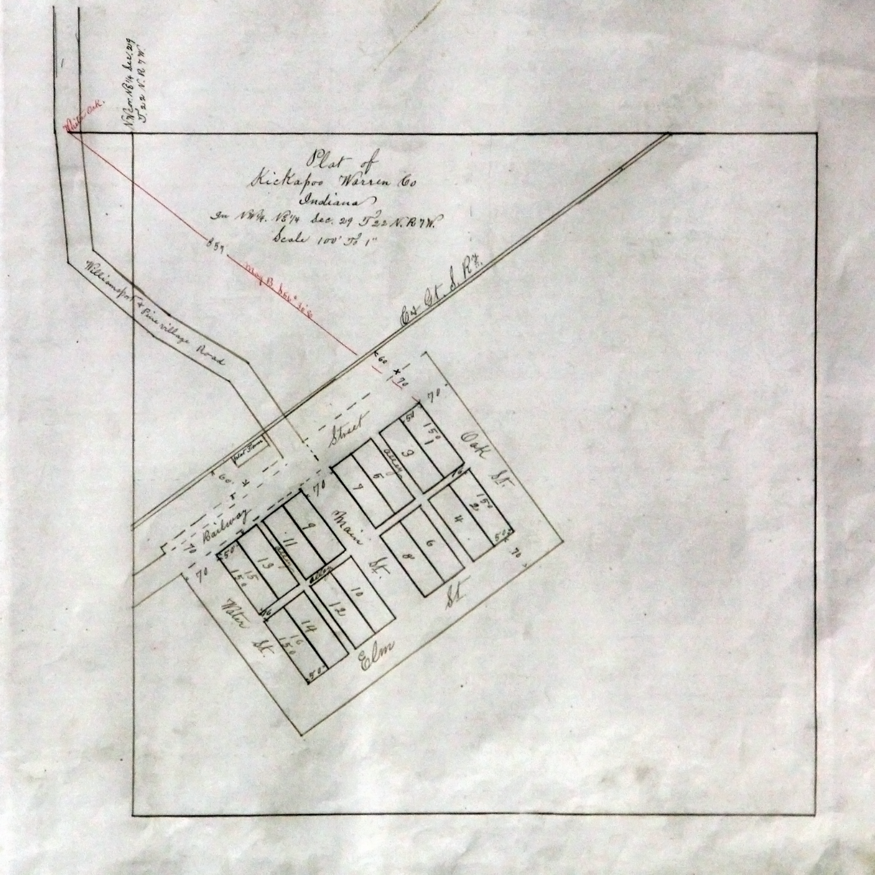 A Plat of the extinct town of Kickapoo, Indiana, held in the records room of the recorder's office in the Warren County Courthouse in Williamsport, Indiana. Kickapoo was platted by Lewis Davisson on 2 February 1885.